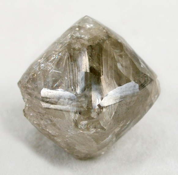 Diamond Locality: Kimberley Mine, Kimberley, Northern Cape Province, South Africa (Locality at ) Size: thumbnail, 1.6 x 1.5 x 1.5 cm (weight 18.7 carats) Diamond (18.7 carats) This is one of those few rare diamonds that today can be dated and located to the original Kimberley Mine itself, almost certainly dating to the early 1900s and perhaps further. It went to the Smithsonian in a collection prior to WWI, I am told, and then was traded out to dealer Walt Lidstrom in the 1960s. It stayed with his family in his personal collection of thumbnails and toenails, which they kept long after he passed away, selling only a few years ago. Bill Pinch snagged this one immediately, realizing its scientific and historic importance as it had the valid label and documentation therefore to show it as a Kimberly Mine piece and not just a diamond from the Kimberly Mining Company's many later mines.